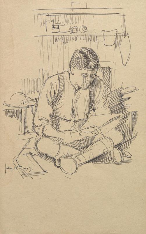 Sketch portrait of Coviello at Roclincourt image: a soldier sitting cross-legged, reading